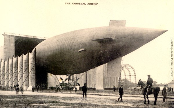 Parseval PL 18 was built in Germany and delivered to the English Navy and designated "Parseval No.4". This photograph is from the Jean-Pierre Lauwers collection.